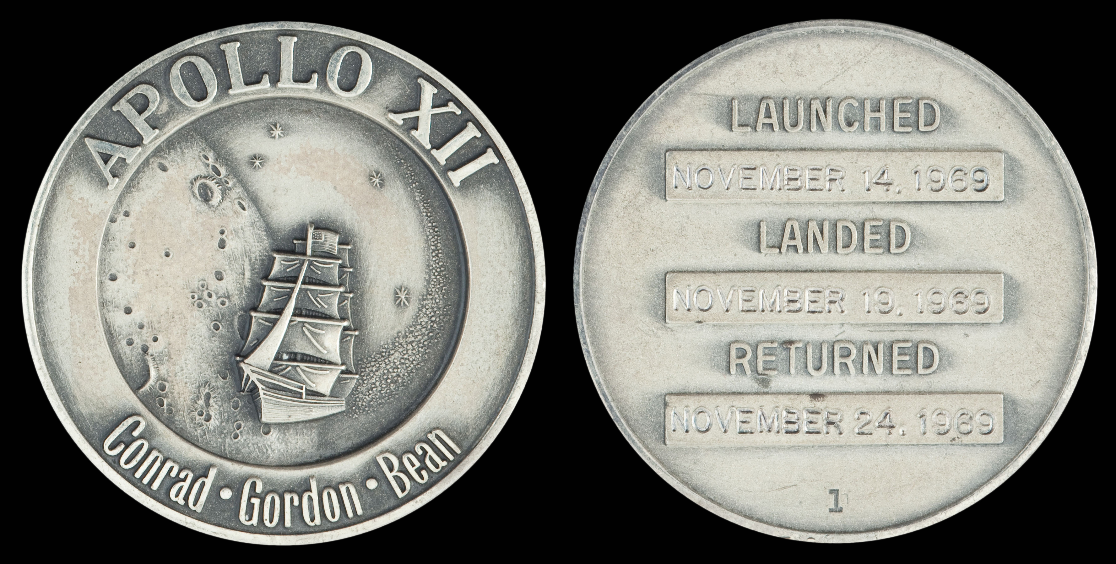 Apollo 12 (S69-52336, September 1969) Flown Silver Robbins Medallion (SN-1) presented to Jim Rathmann by Pete Conrad (6082-40079)